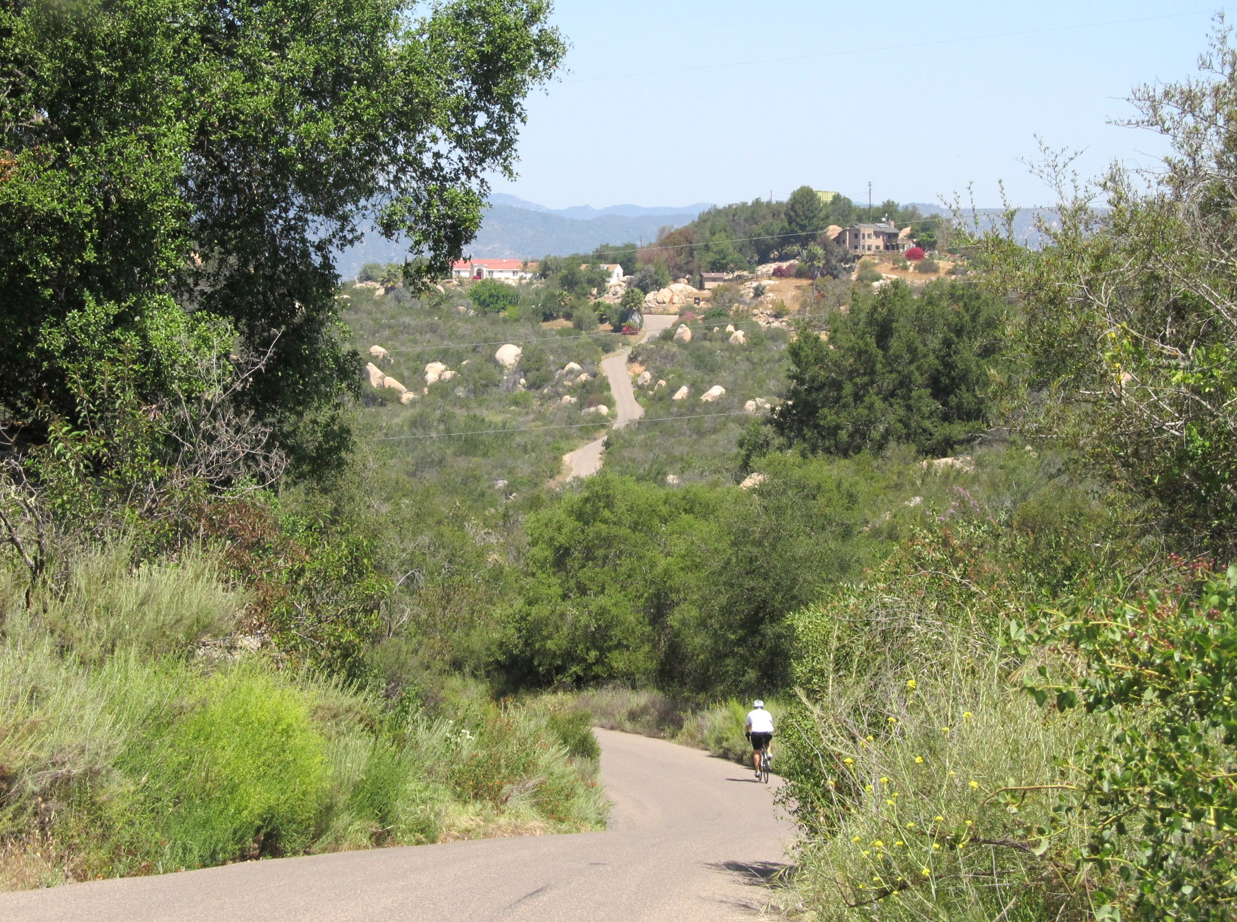 Winding narrow De Luz Heights Rd looking north to its terminus at Big Rock Ranch in De Luz Heights.